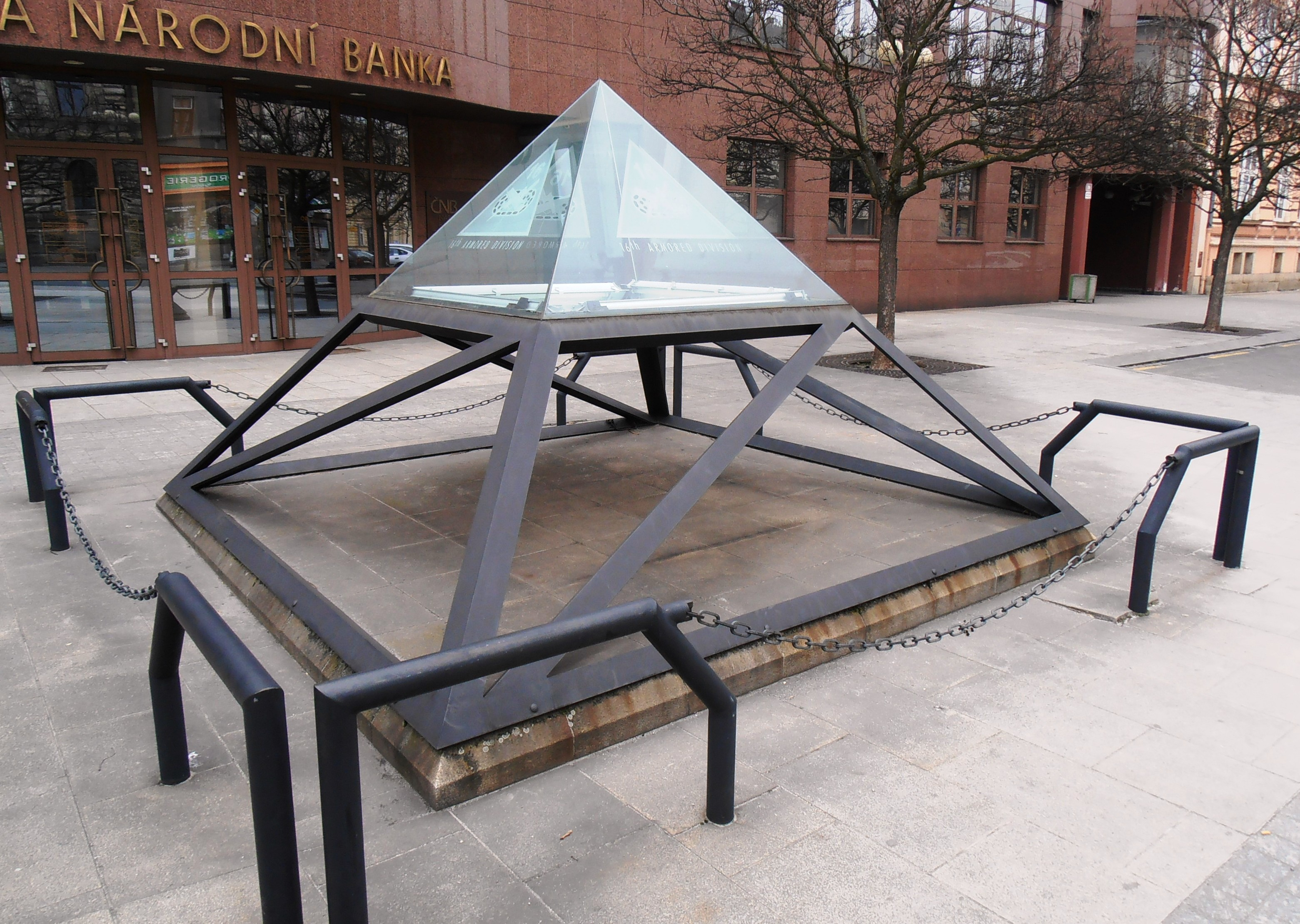 The monument of 16th Armored Division that liberated Pilsen city in the 6th May 1945. Husova street, Pilsen. (5. 4. 2013)